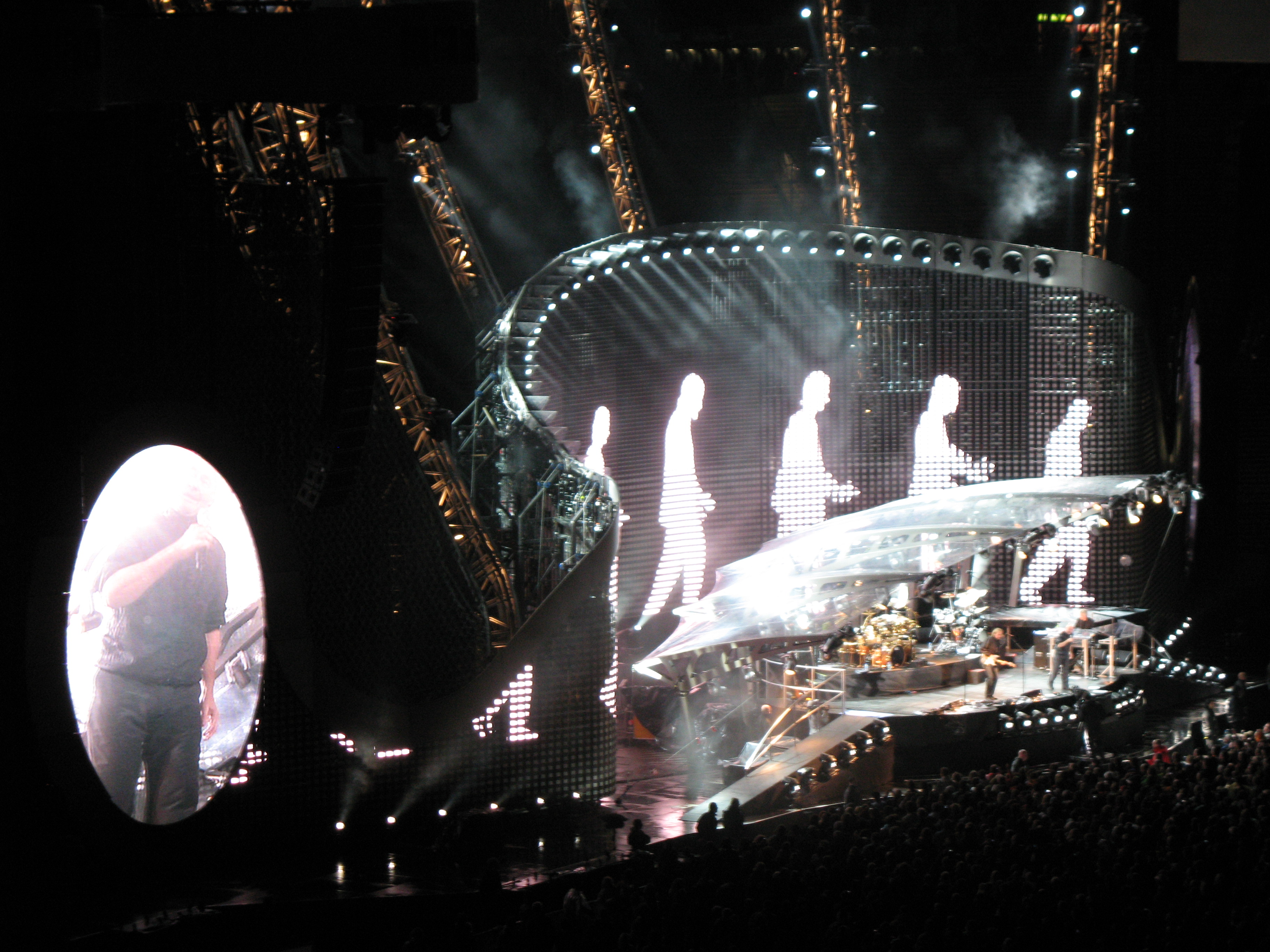 Genesis performing "I Can't Dance" at the Olympic Stadium, Munich, Germany